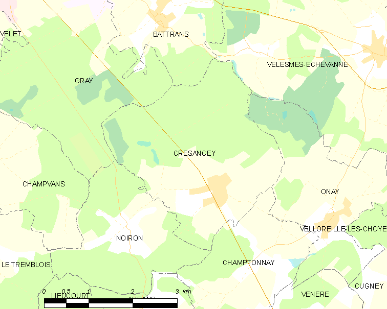 Map of French municipality